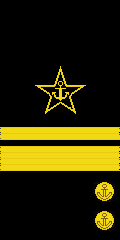 Rank insignia of the Russian Federation´s armed forces, here Sea war fleet (Navy) "Rear admiral” (OF6) – sleeve insignia everyday uniform, and parade uniform.